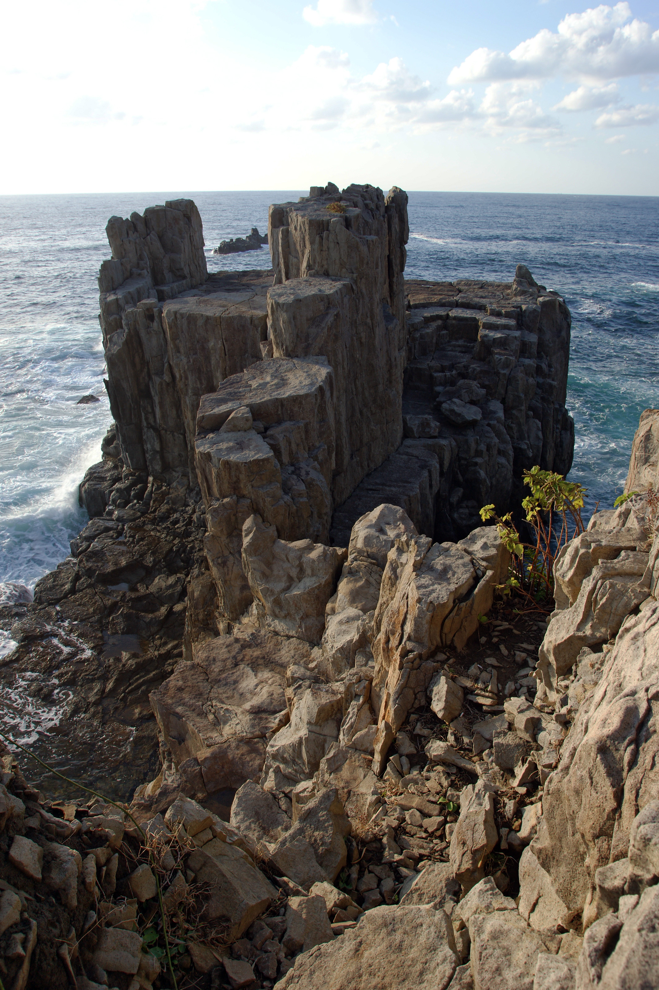 Tojinbo, Sakai, Fukui prefecture, Japan